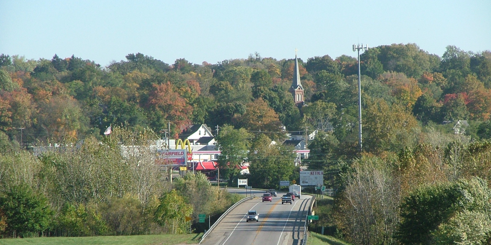 A view of Attica, Indiana, looking east from Warren County across the Wabash River along the Paul Dresser Bridge.